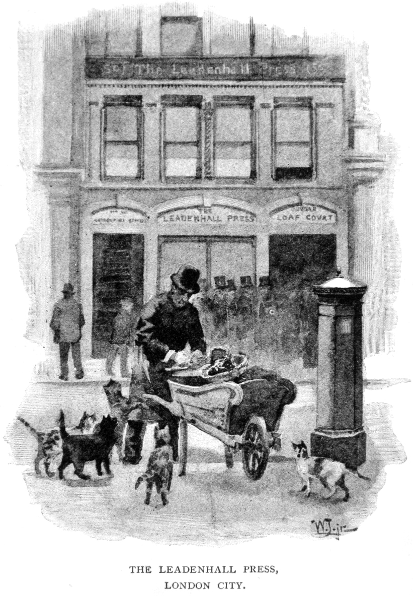 London location of Leadenhall Press